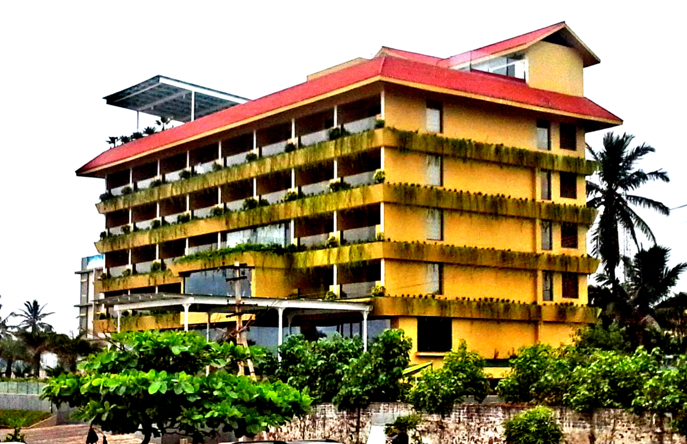 View of Novotel beach resort at Bheemunipatnam, Visakhapatnam, Andhra Pradesh